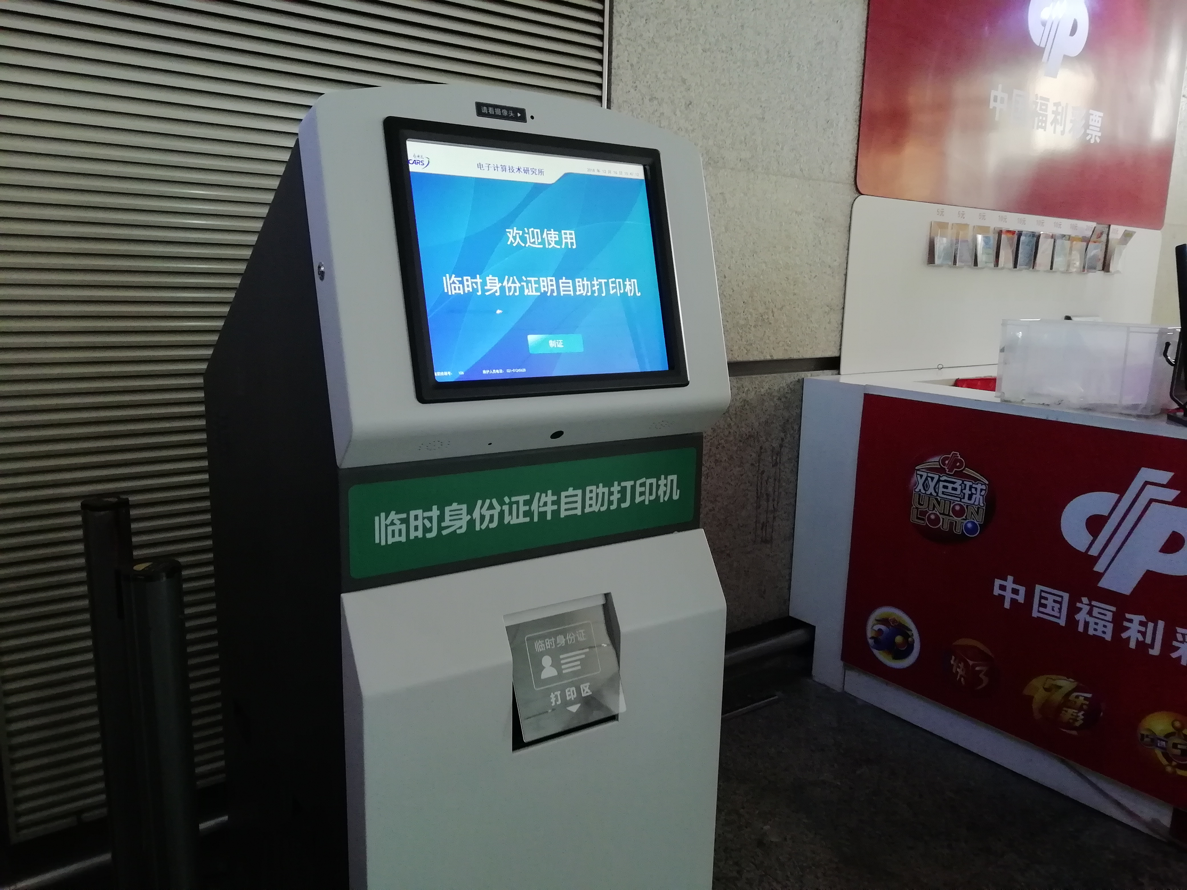 A Temporary ID printer in Shanghai Hongqiao Railway Station